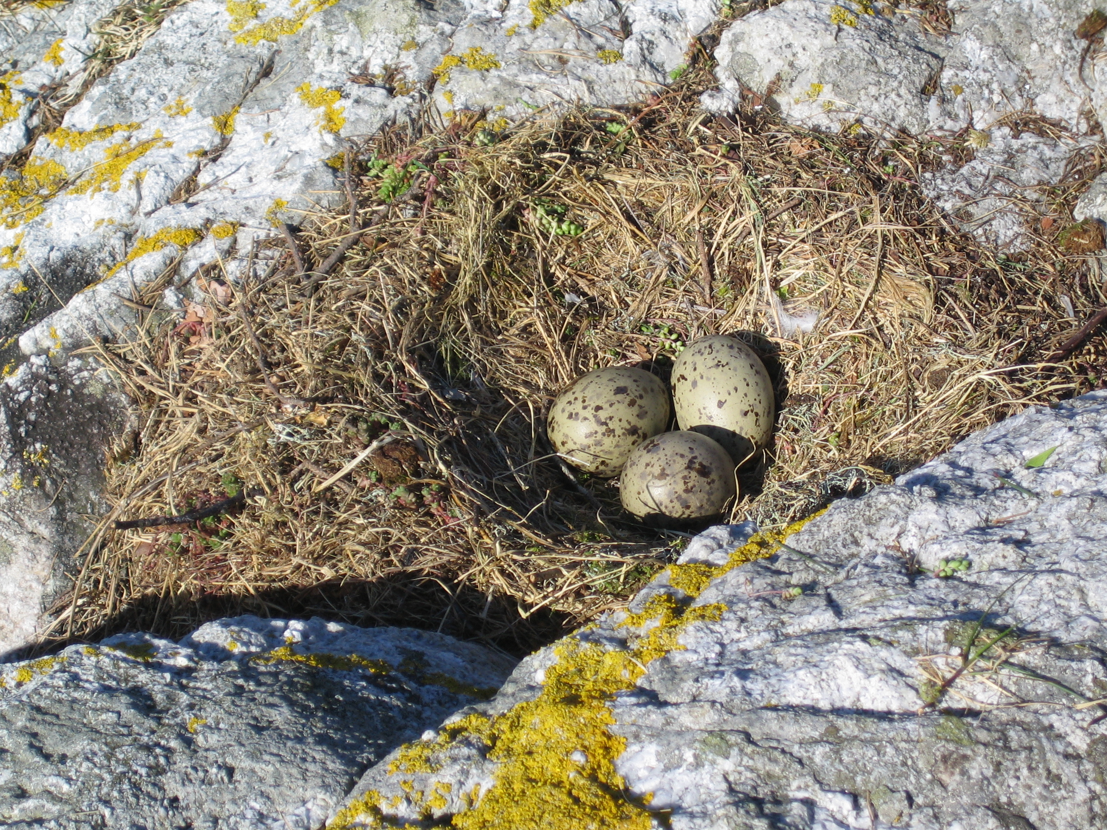 Unknown eggs from Norway